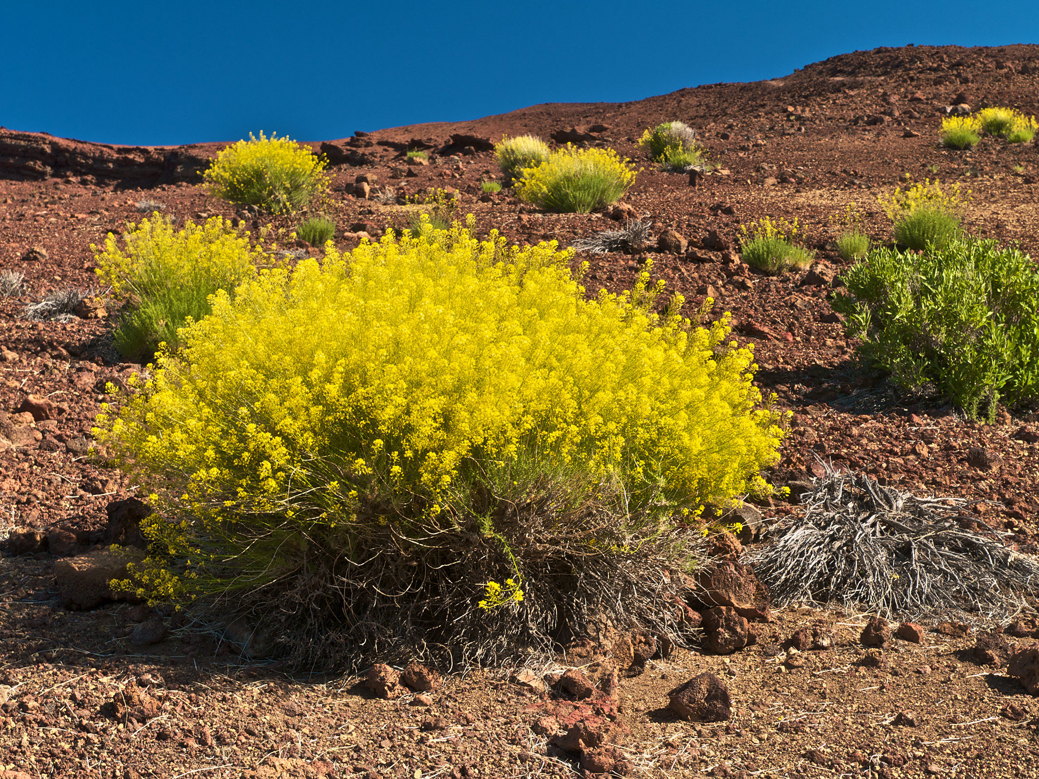 Descurainia bourgaeana, Tenerife, Spain